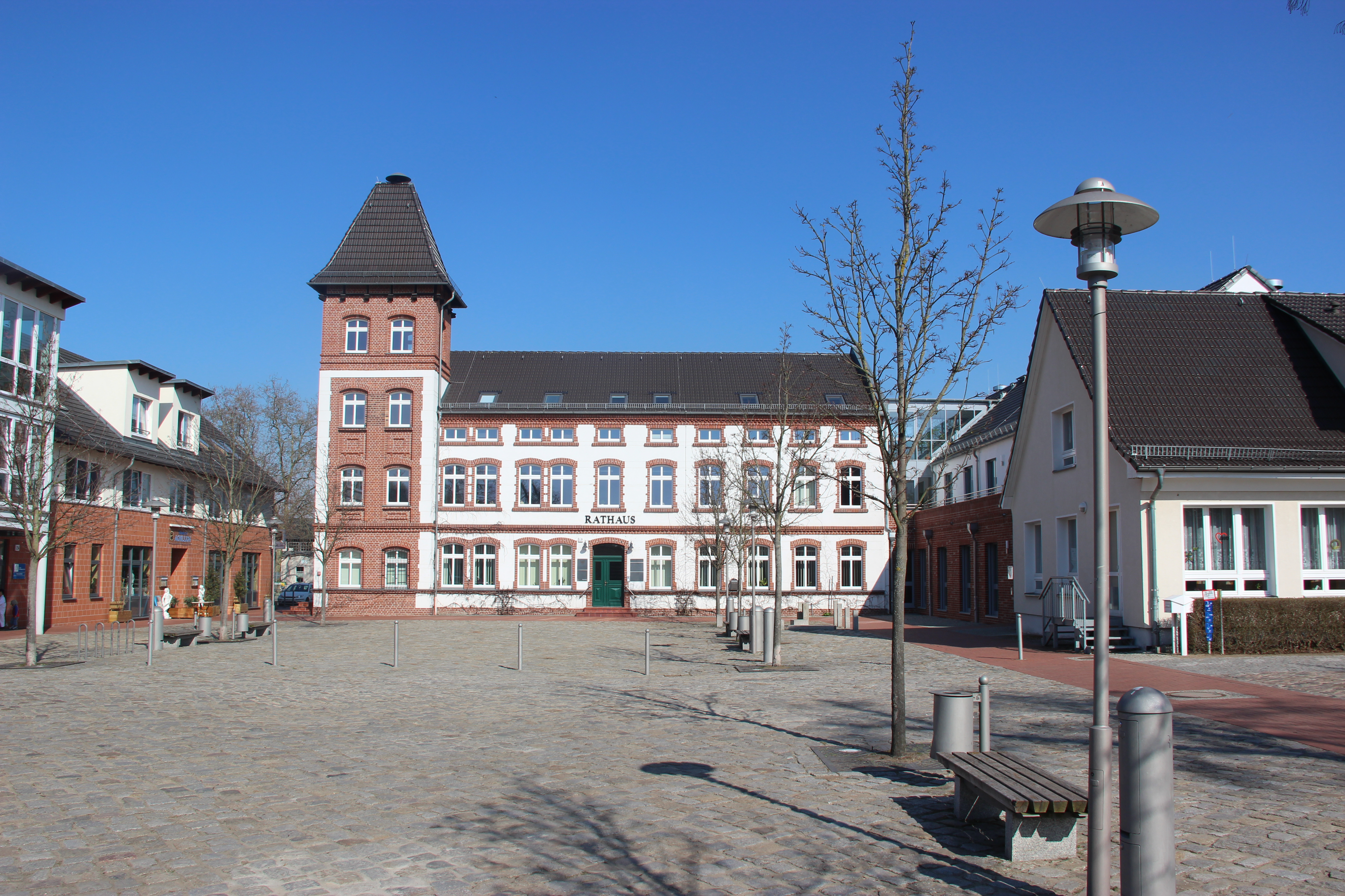 The City Hall of Woltersdorf.